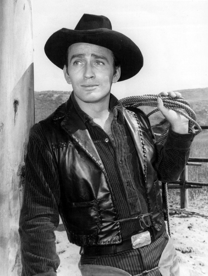 Photo of James Drury in the title role from the television program The Virginian.